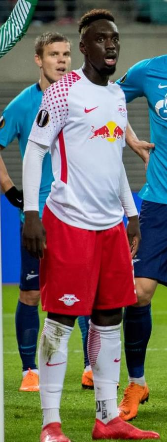 08.03.2018. Германия, Лейпциг, «РБ Арена». Лига Европы УЕФА 2017/18, 1/8 финала, «РБ Лейпциг» — «Зенит».